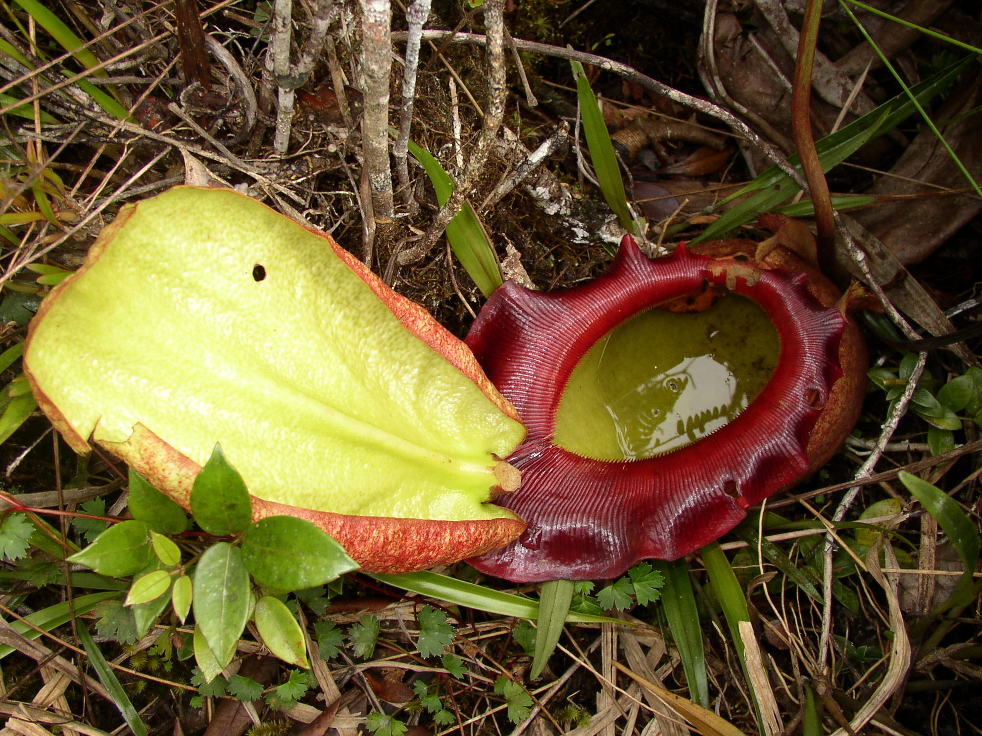 Nepenthes rajah